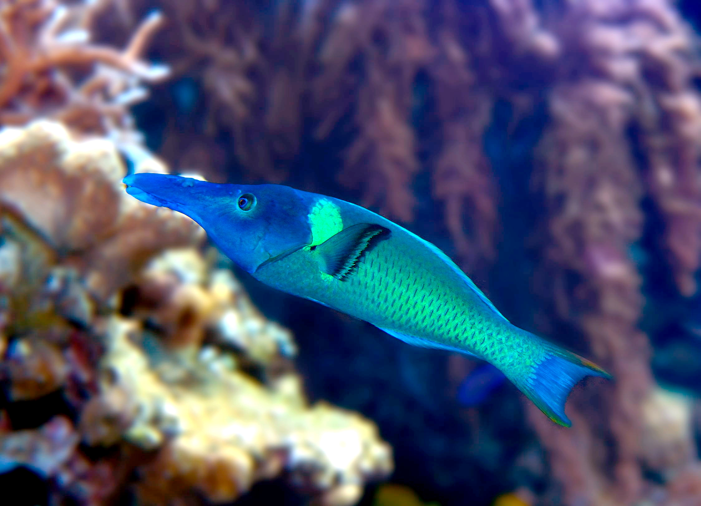 Austria, Vienna, Tiergarten Schönbrunn